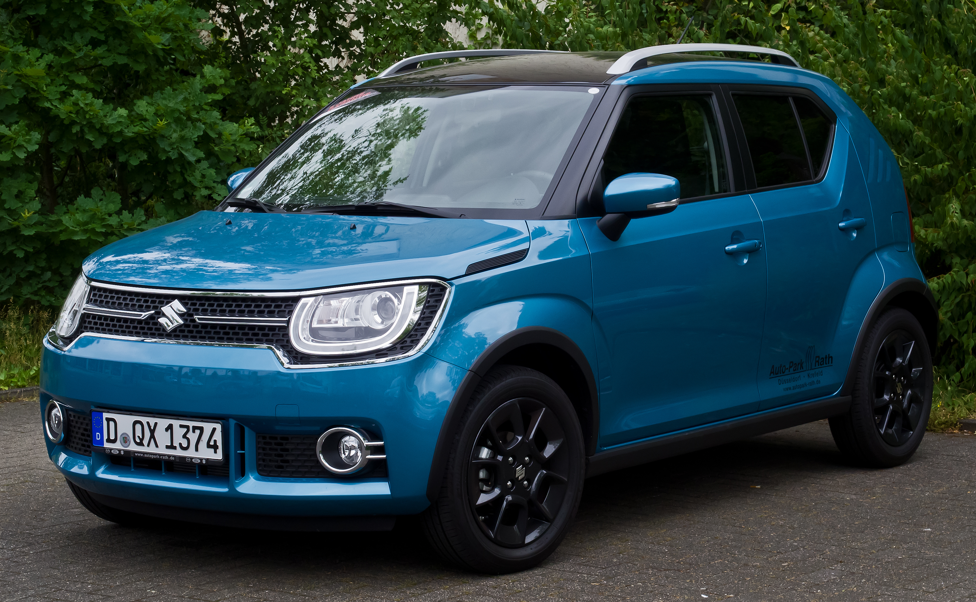 Suzuki Ignis 1.2 Intro Edition+ (III)